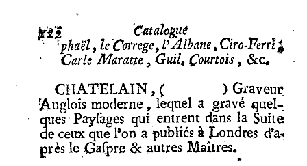 Extract from the Basan's Dictionnaire, about CHATELAIN, p. 122.